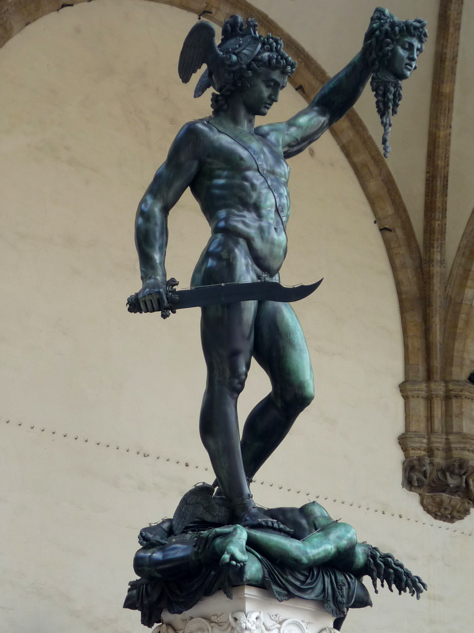 The sculpture of Benvenuto Cellini is «Perseus»